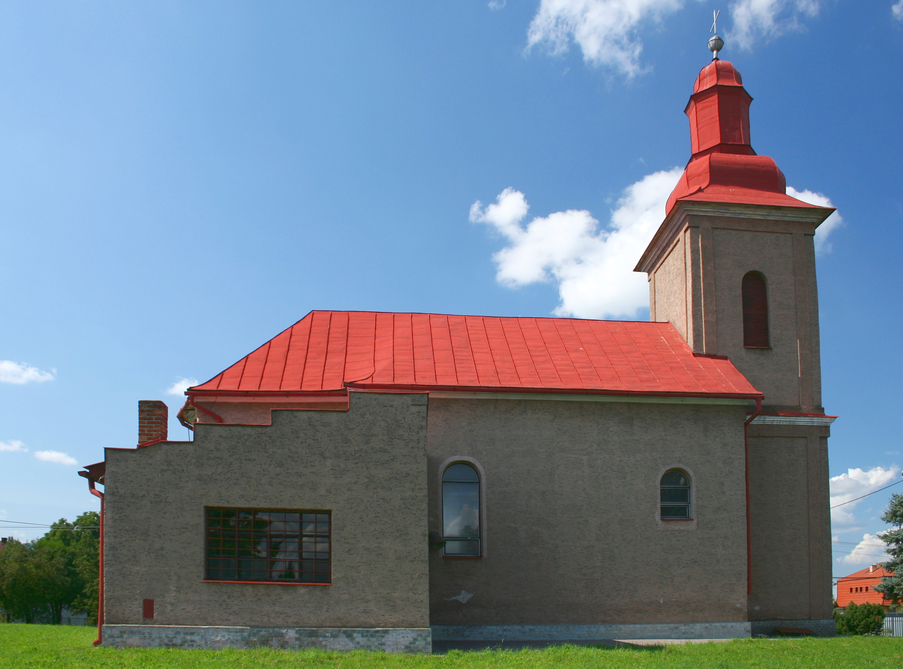 church in Čaklov, Slowakia